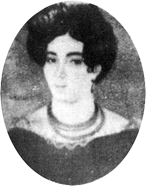 Ângela Fierriol Gonzalez who may have been the Duke of Caxias' fiancee.